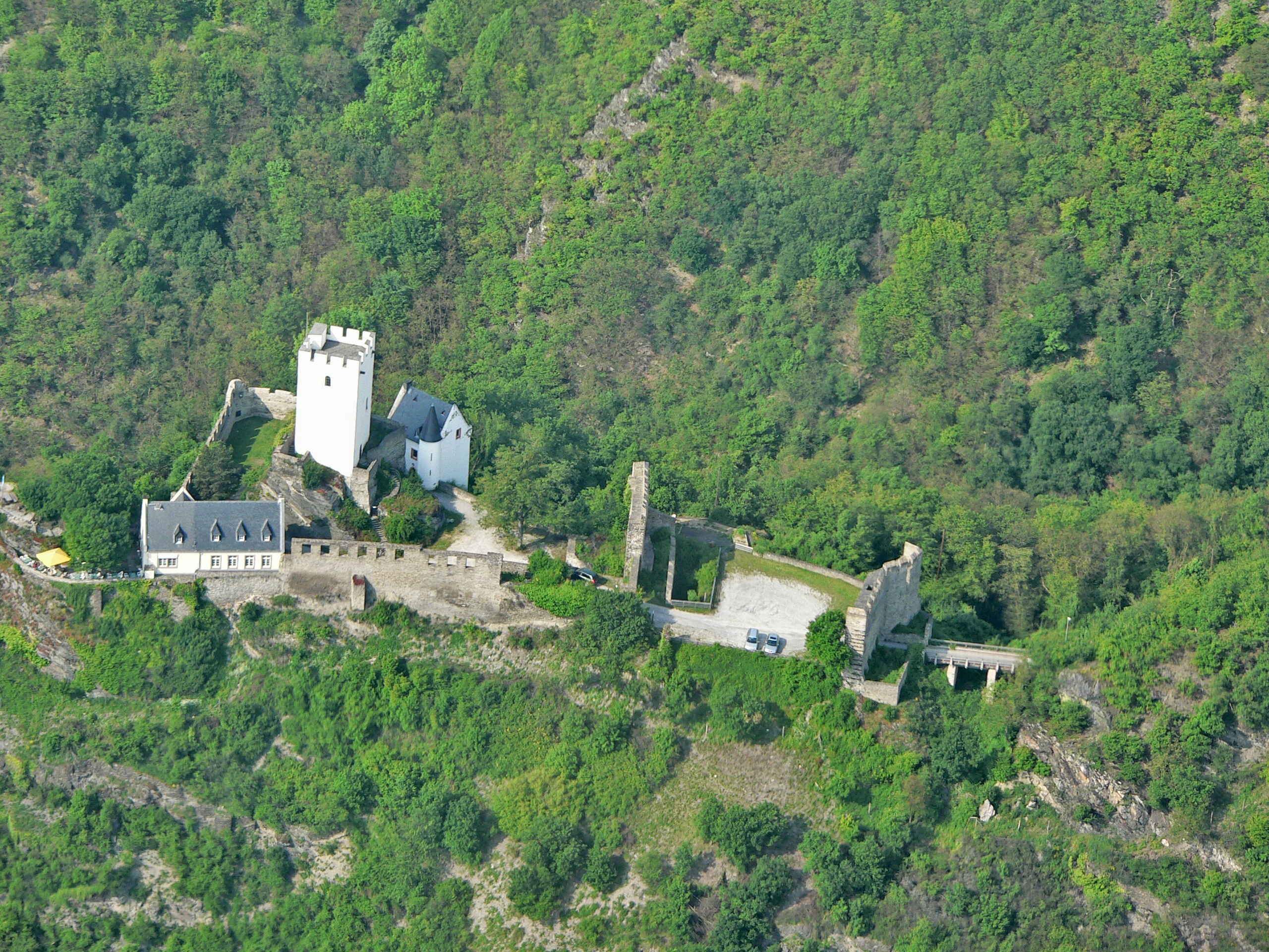 Air photograph of Sterrenberg Castle, Germany